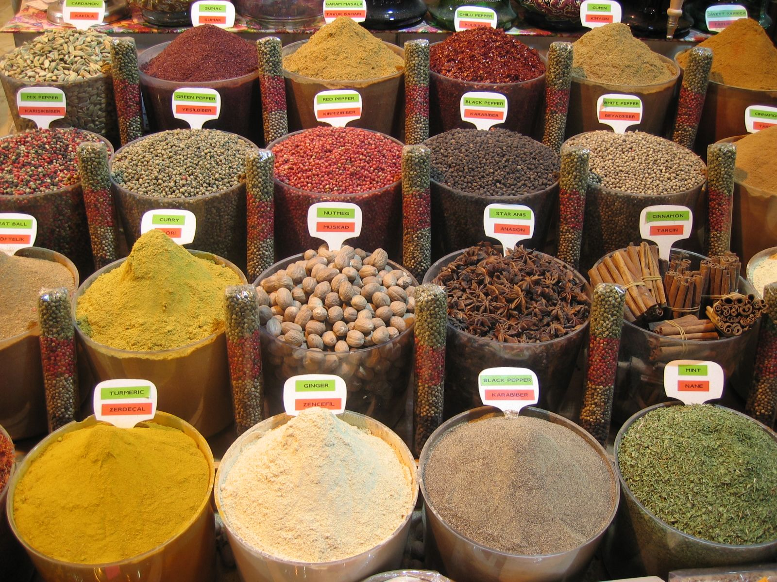 spices: (Turkey, travel, Istanbul, spice market, spices, törökország, turquie, tirkiye, türkiye, türkei, bazaar)